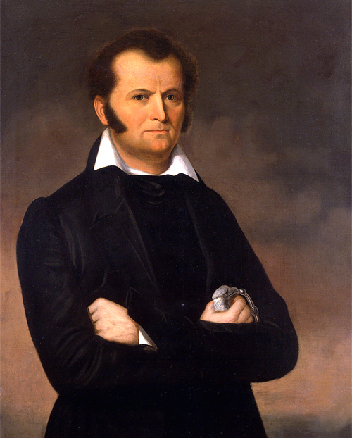 Portrait of Jim Bowie (c.1796-1836), the only known oil painting portrait painted from life.